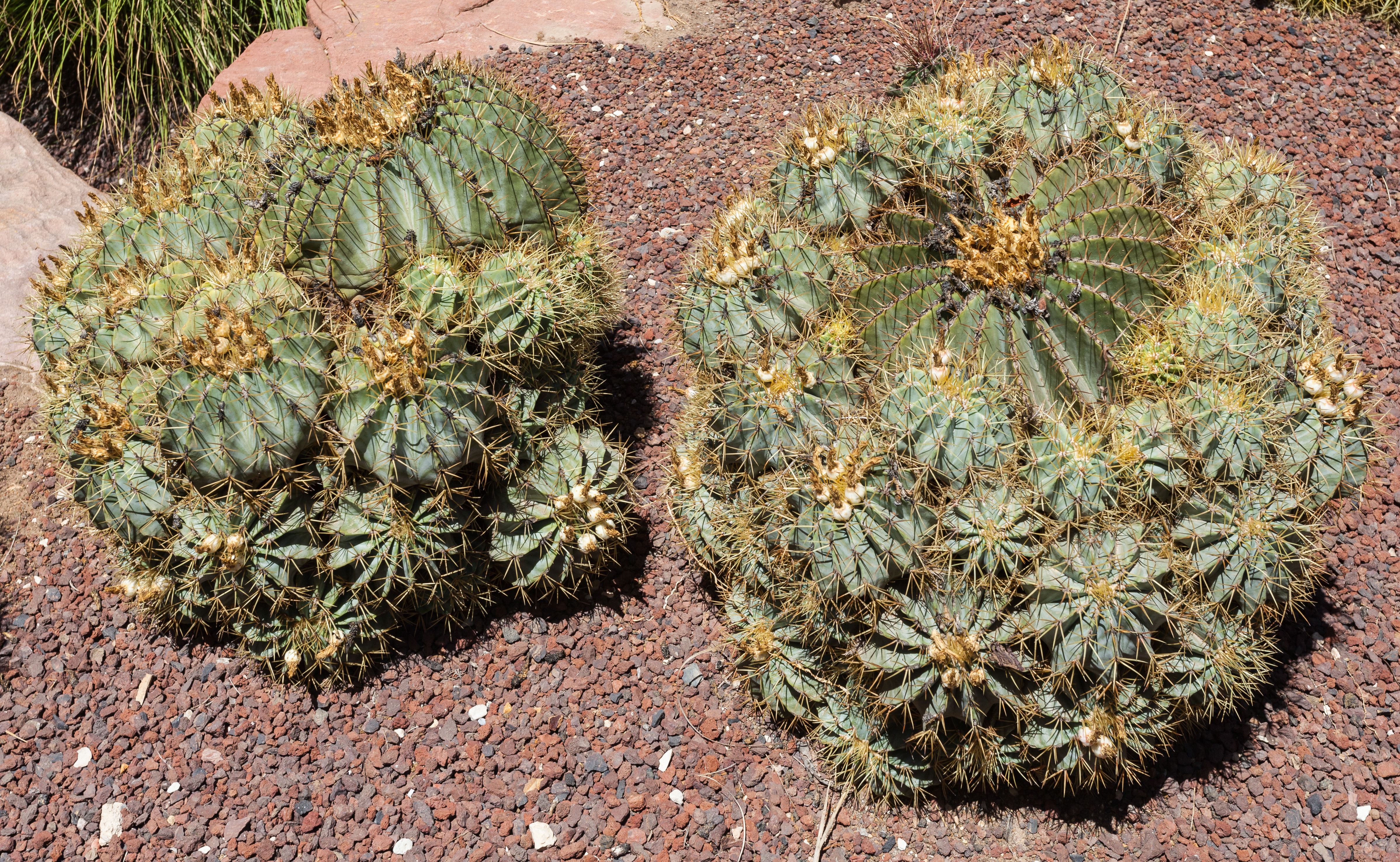 Hedgehog cactus (Hamatocactus setispinus) with fruits, Huerto del Cura (Priest's Orchard), Elche, Spain